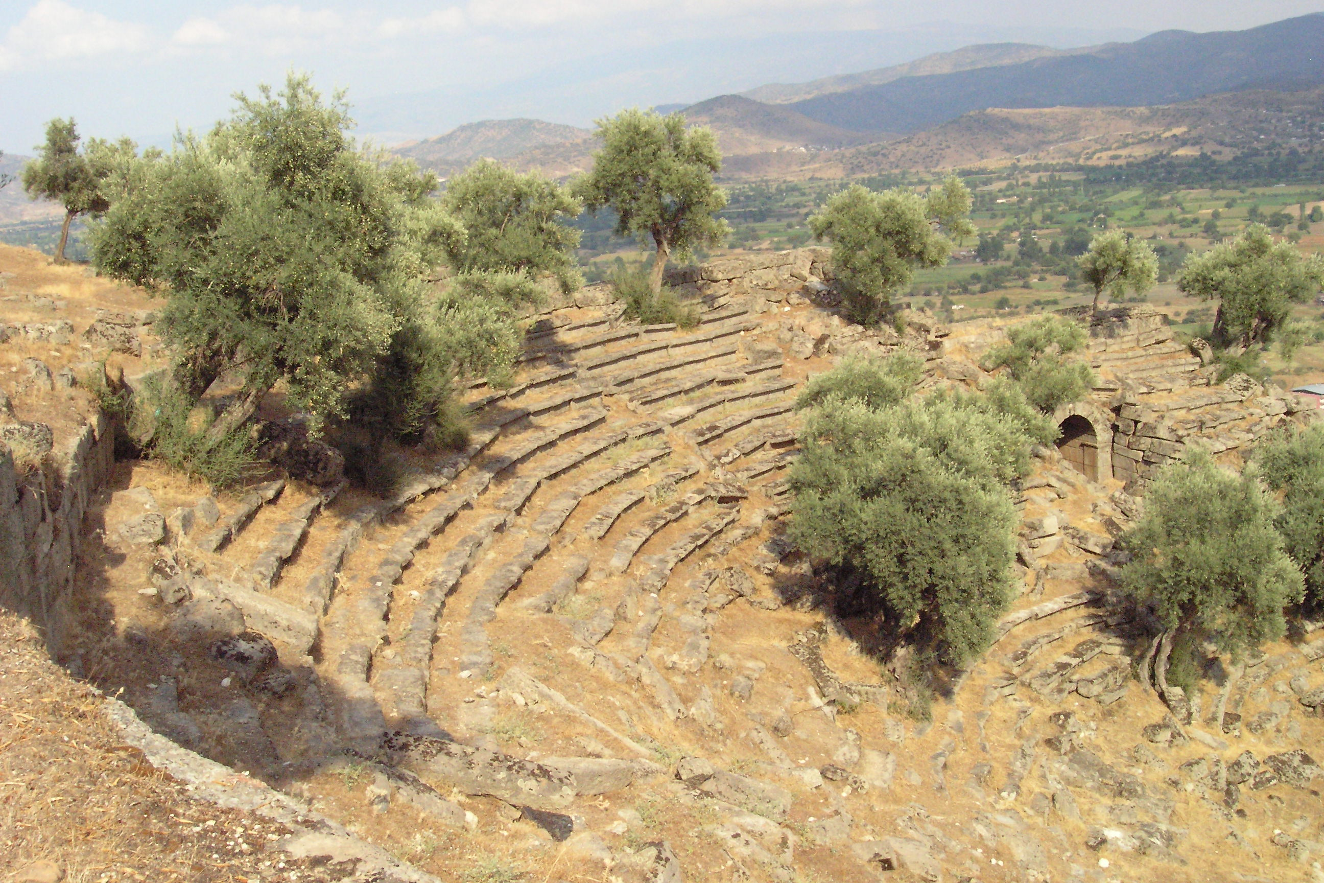 Theatre of Alinda, ancient Carian city, Turkey.